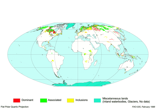 distribution of Histosols